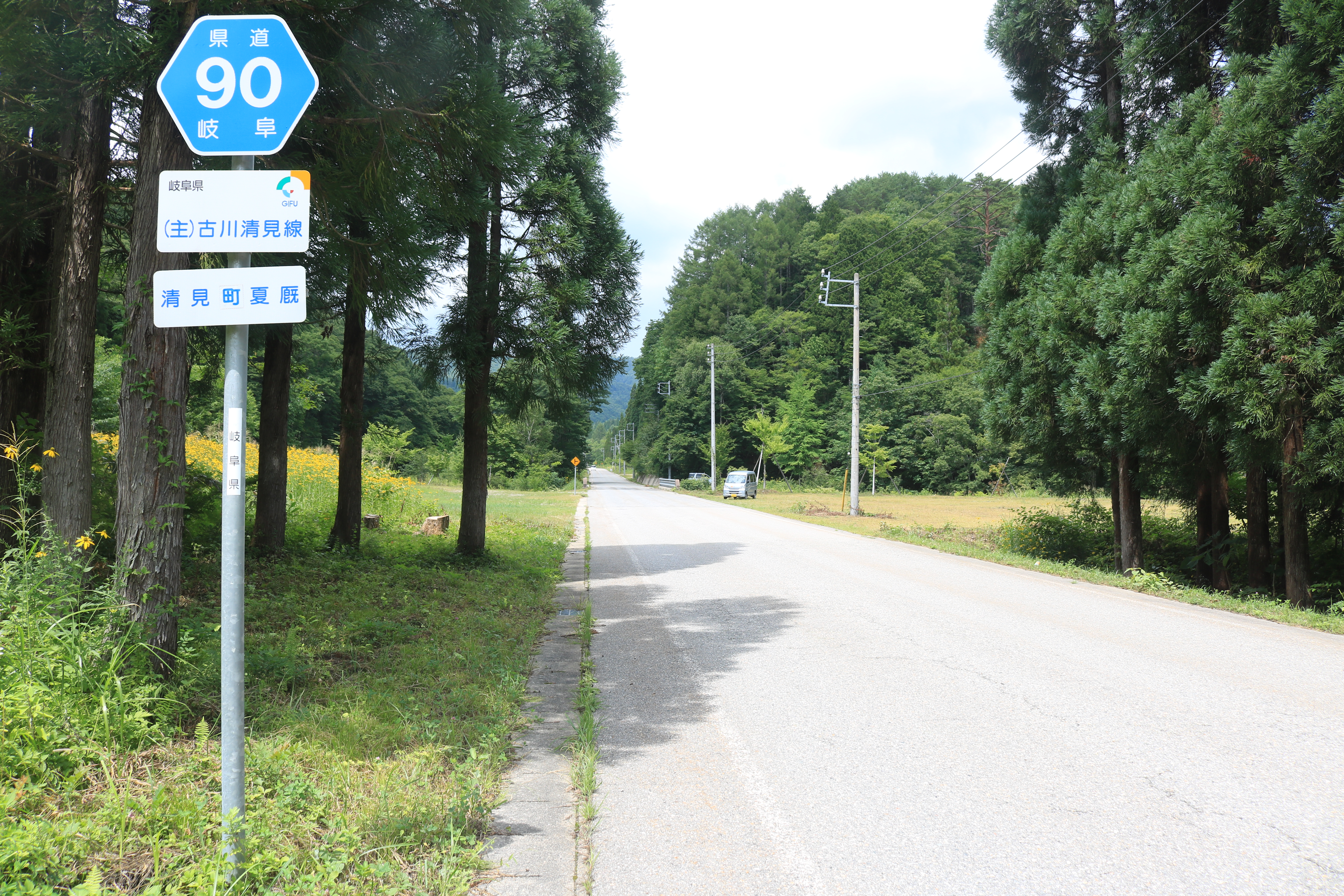 Gifu Prefectural Road Route 90 (Furukawa-Kiyomi line) in Natsumaya, Kiyomicho, Takayama, Gifu Prefecture, Japan Canon EOS Kiss X8i